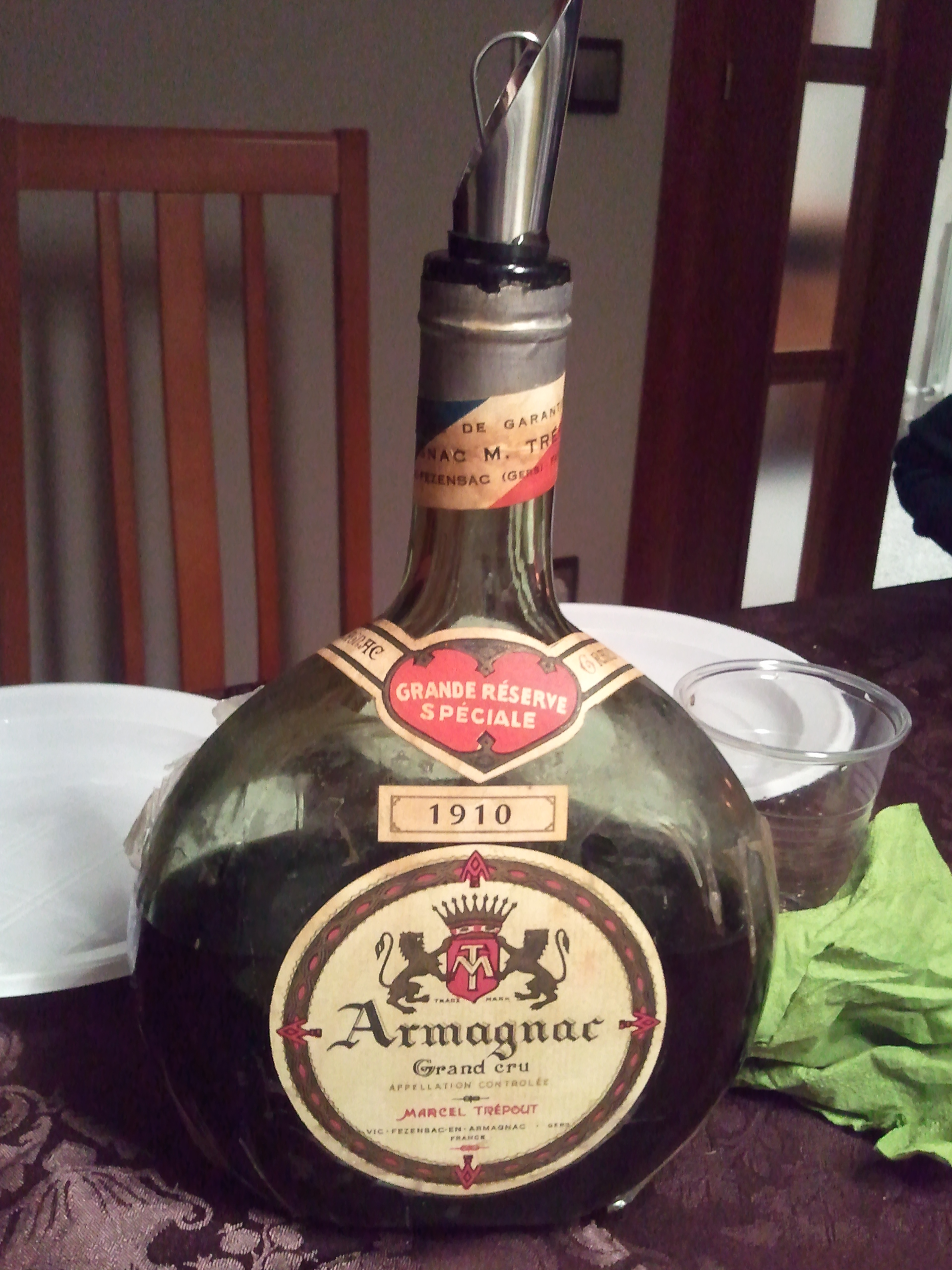 A bottle of Armagnac wine from the 1910 vintage in the French wine region of Gascony. The wine is distilled grape spirit made from Baco blanc, Ugni blanc and other grapes.